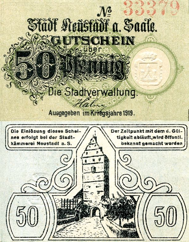 Iflation money of Bad Neustadt/Saale